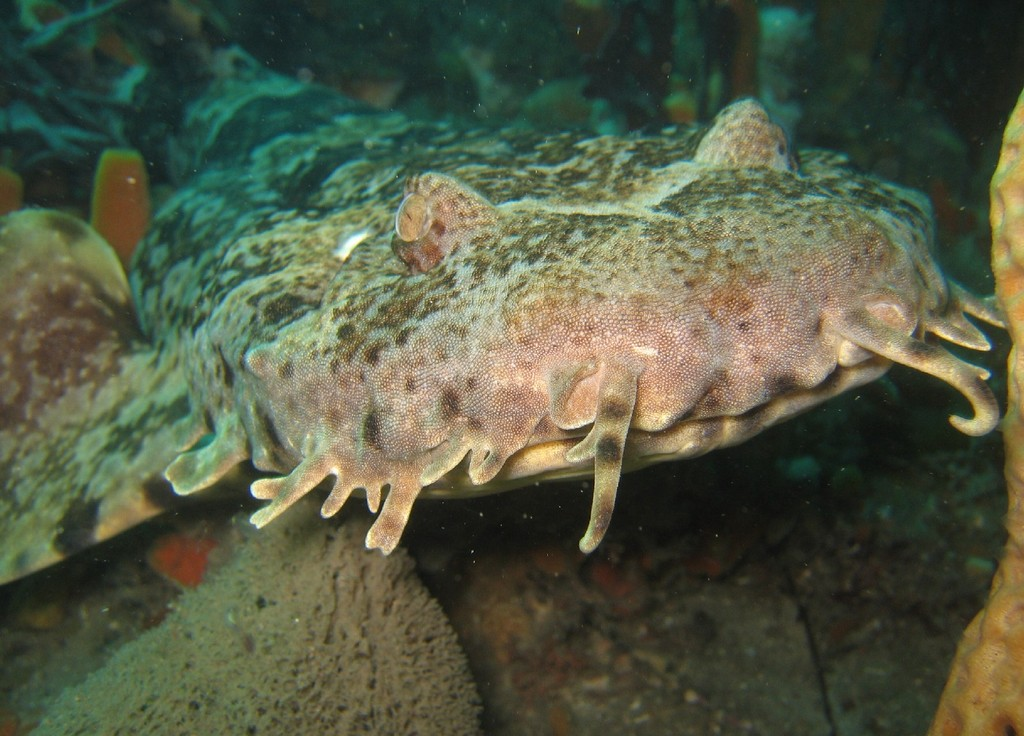 Portrait of a juvenile Gulf Wobbegong (Orectolobus halei). Halifax Point, Port Stephens, NSW